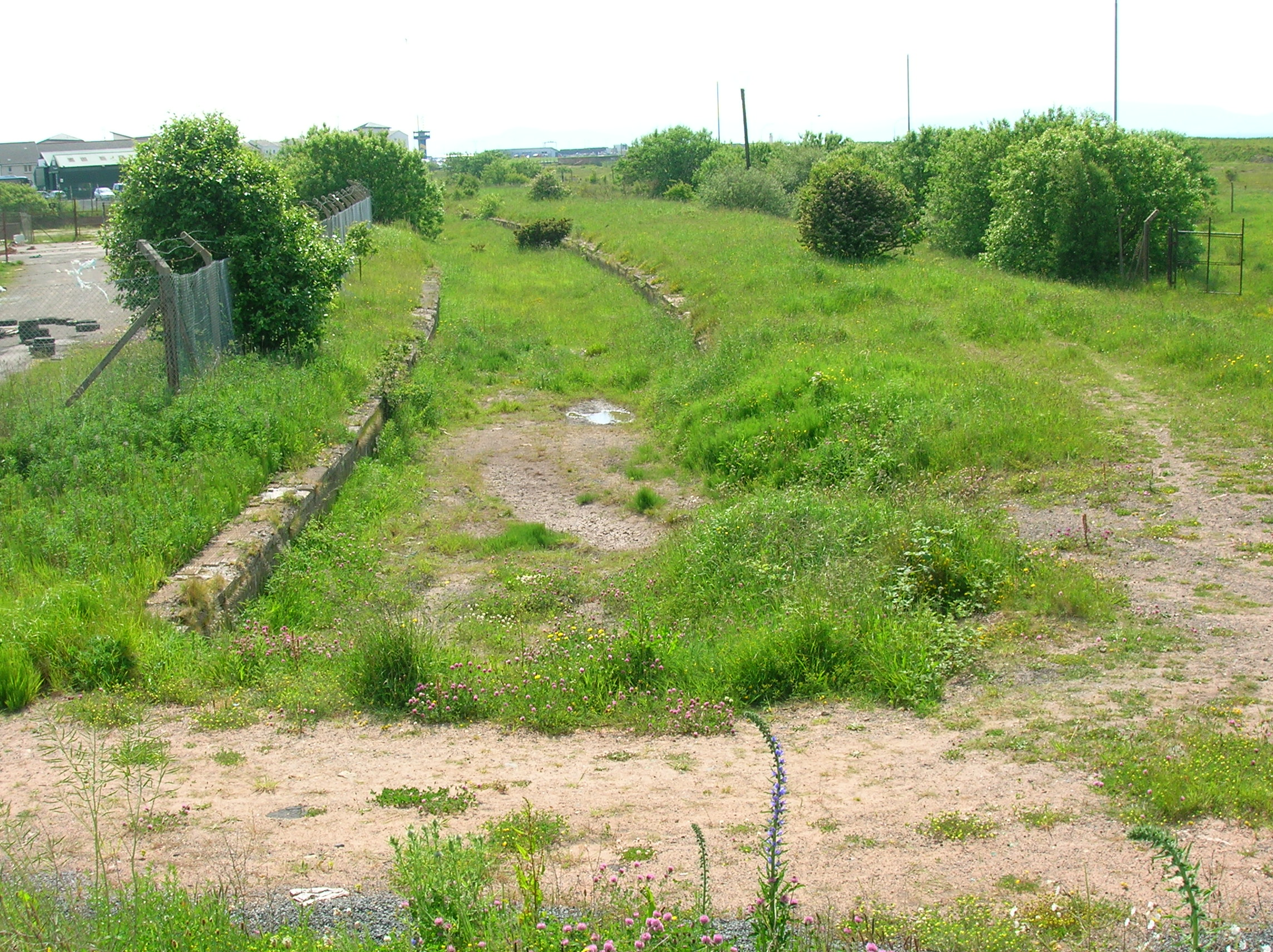 The site of Ardrossan North railway station from the site of the old road overbridge. North Ayrshire. Scotland.